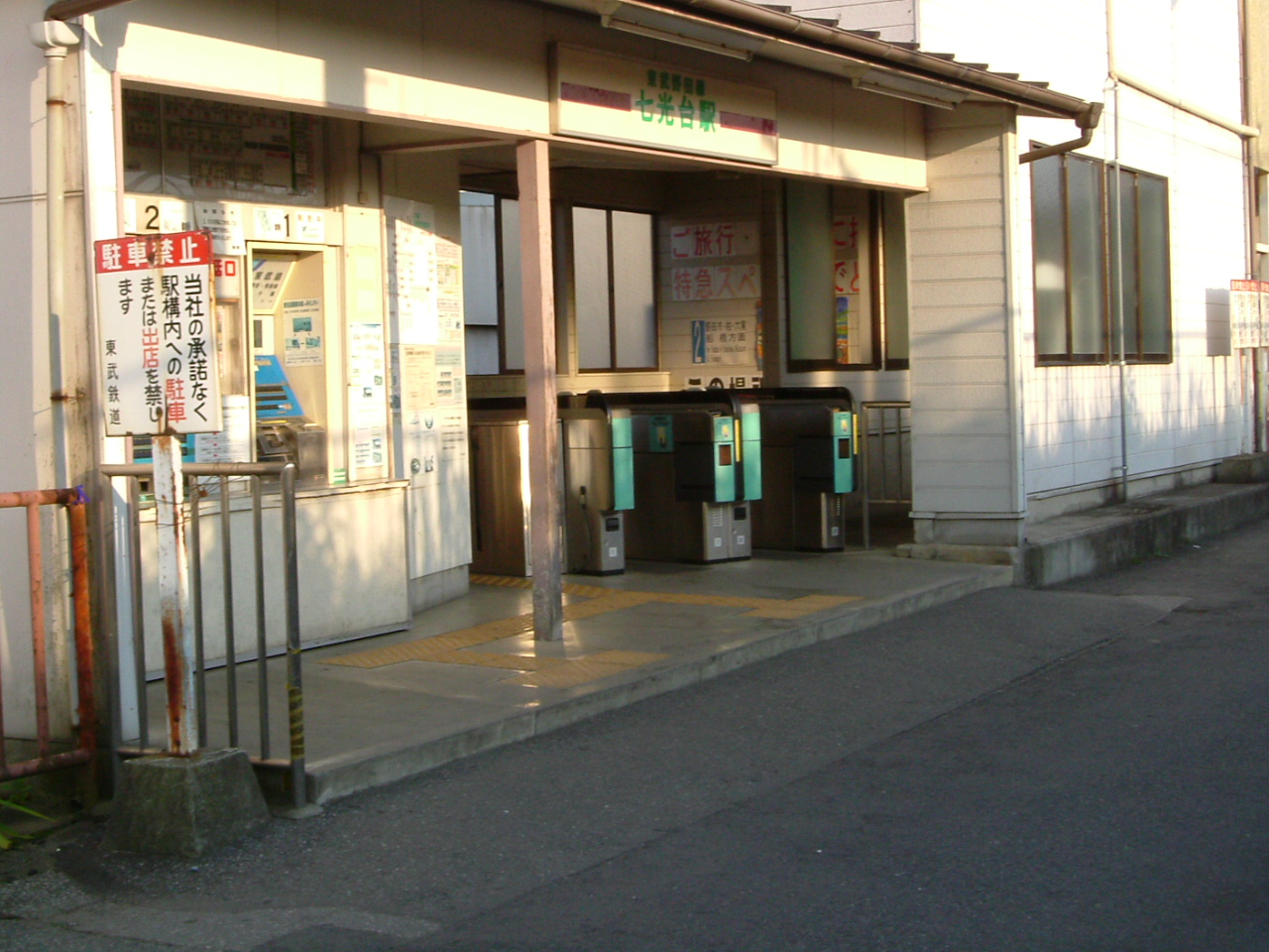 The entrance to Nanakodai Station on the Tobu Noda Line